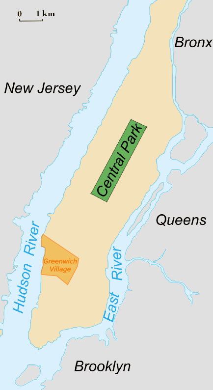 Carte de situation de Greenwich Village, New York City